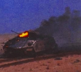 IFV Bradley shattered by Iraqi T-72 tank fire, Feb 26 1991.